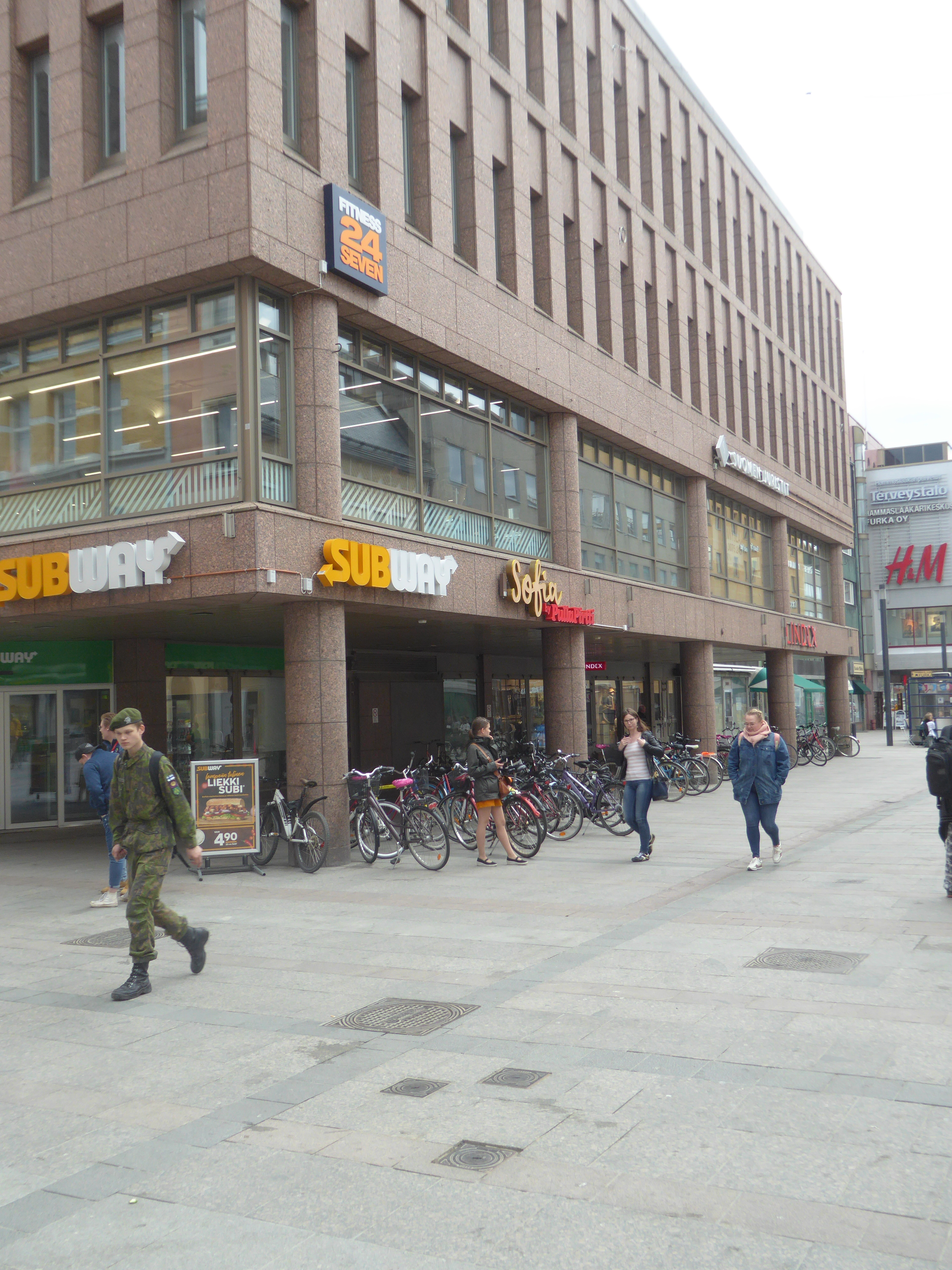 Views of Oulu